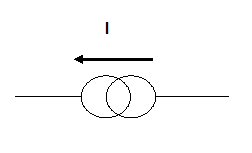 Circuit diagram current generator